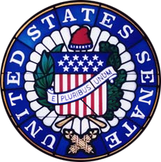 Seal of the United States Senate.Transferred from en.wikipedia to Commons. The original description page was here. All following user names refer to en.wikipedia.